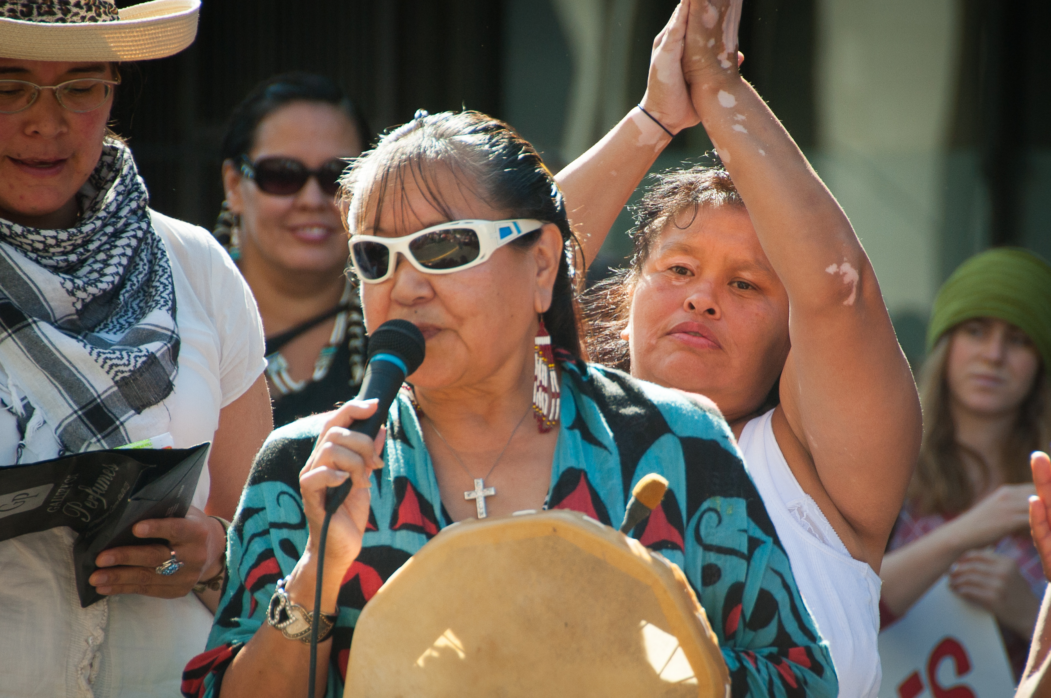 Demonstrators at the 6th Annual Women's Housing March, Vancouver